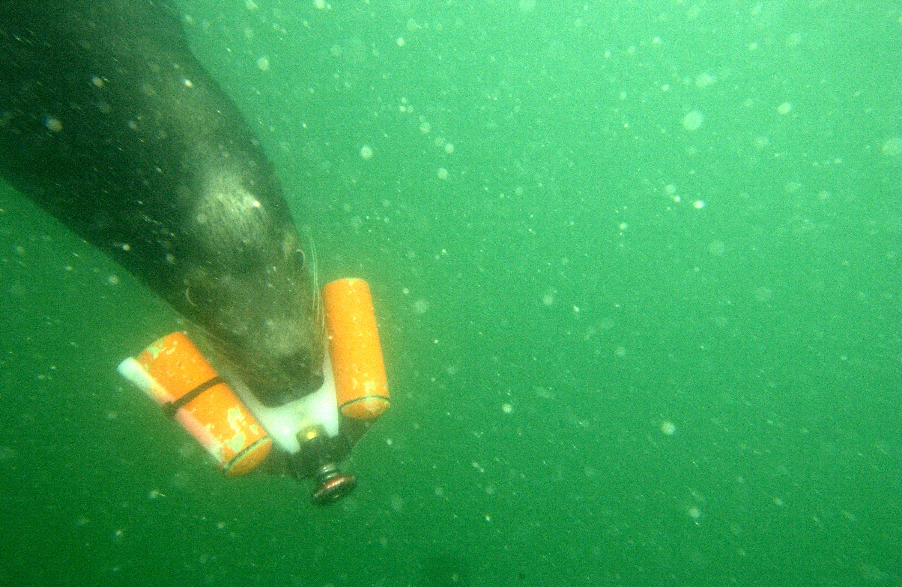 Central Command Area of Responsibility (Feb. 12, 2003) -- Zak, a 375-pound California sea lion moves through the water with a training device during one of the harbor patrol training swim. Zak is participating in the Space and Naval Warfare Systems Center’s, Shallow Water Intruder Detection System (SWIDS) program. Zak has been trained to locate swimmers near piers, ships, and other objects in the water considered suspicious and a possible threat to military forces in the area. SWIDS program has been deployed as part of the continued effort to support missions under Operation Enduring Freedom. U.S. Navy Photograph by Photographers Mate 2nd Class Bob Houlihan. (RELEASED)